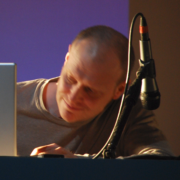 A portrait of Jonathan Barnbrook (British graphic designer and typographer) during a conference in Florence, Italy ("Festival della Creatività" - 2008).